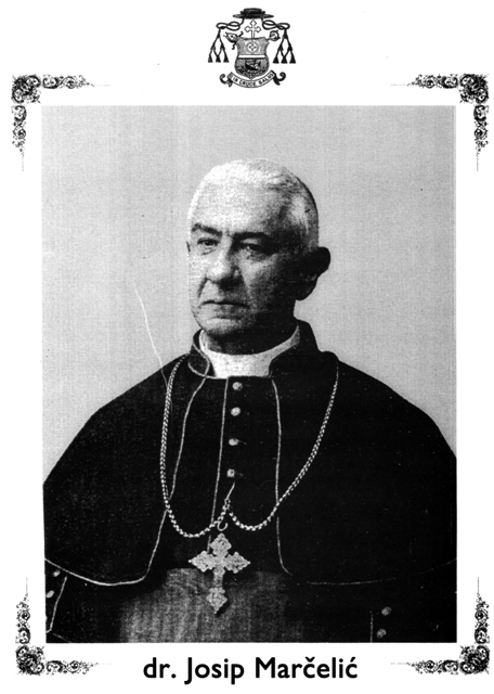 Josip Grgur (Josef Gregor) Marcelic (1847-1928) Bischof von Dubrovnik 1893-1928